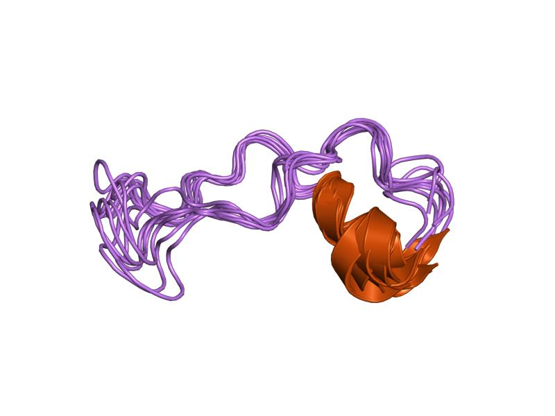 Cartoon representation of the molecular structure of protein registered with 1pxq code.